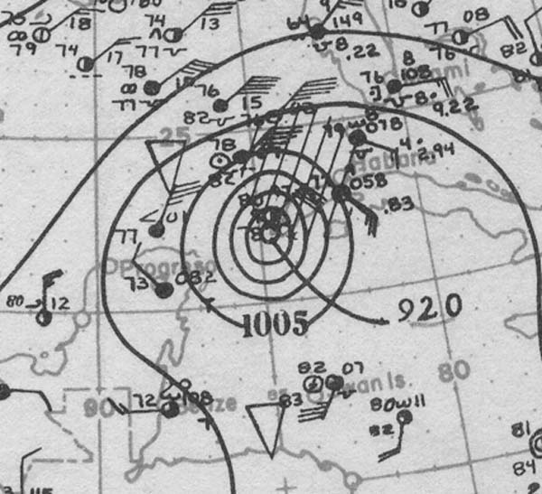 Surface weather analysis of the 1924 Cuba hurricane, otherwise known as 'Hurricane Ten,' on October 19, 1924. At the time, it was passing over the western tip of Cuba, operationally as a Category 3 hurricane. A reanalysis project determined that the hurricane was a Category 5 hurricane - the earliest (as of Dec. 2012) documented Category 5. The weather map indicates five distinct closed isobars, and the central minimum pressure of the system is 920 mbar.